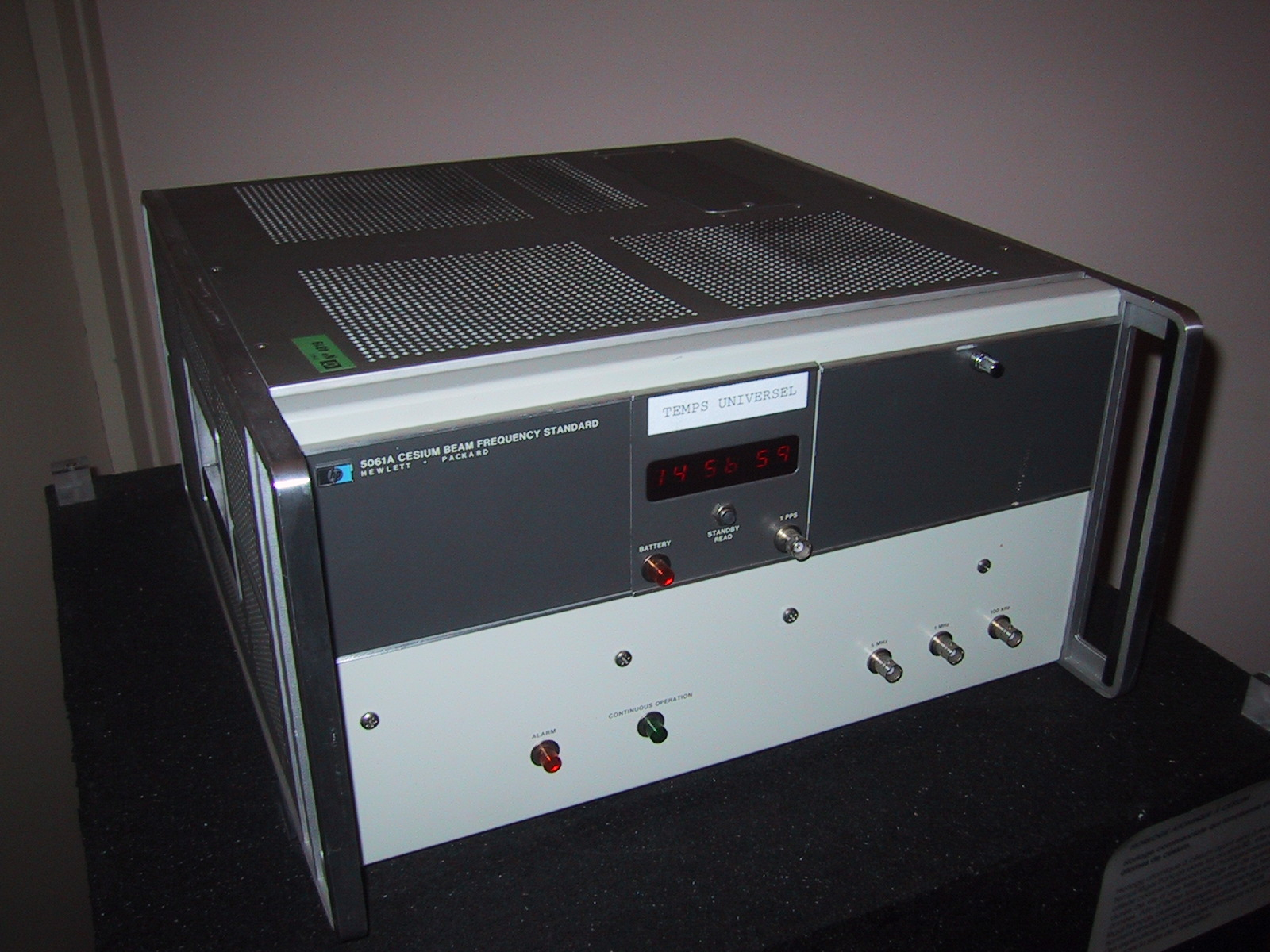 HP 5061A Cesium beam frequency standard